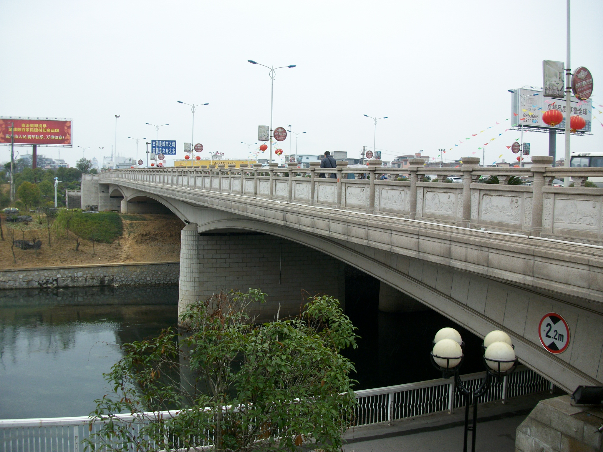 Chuanshan Bridge, Guilin.